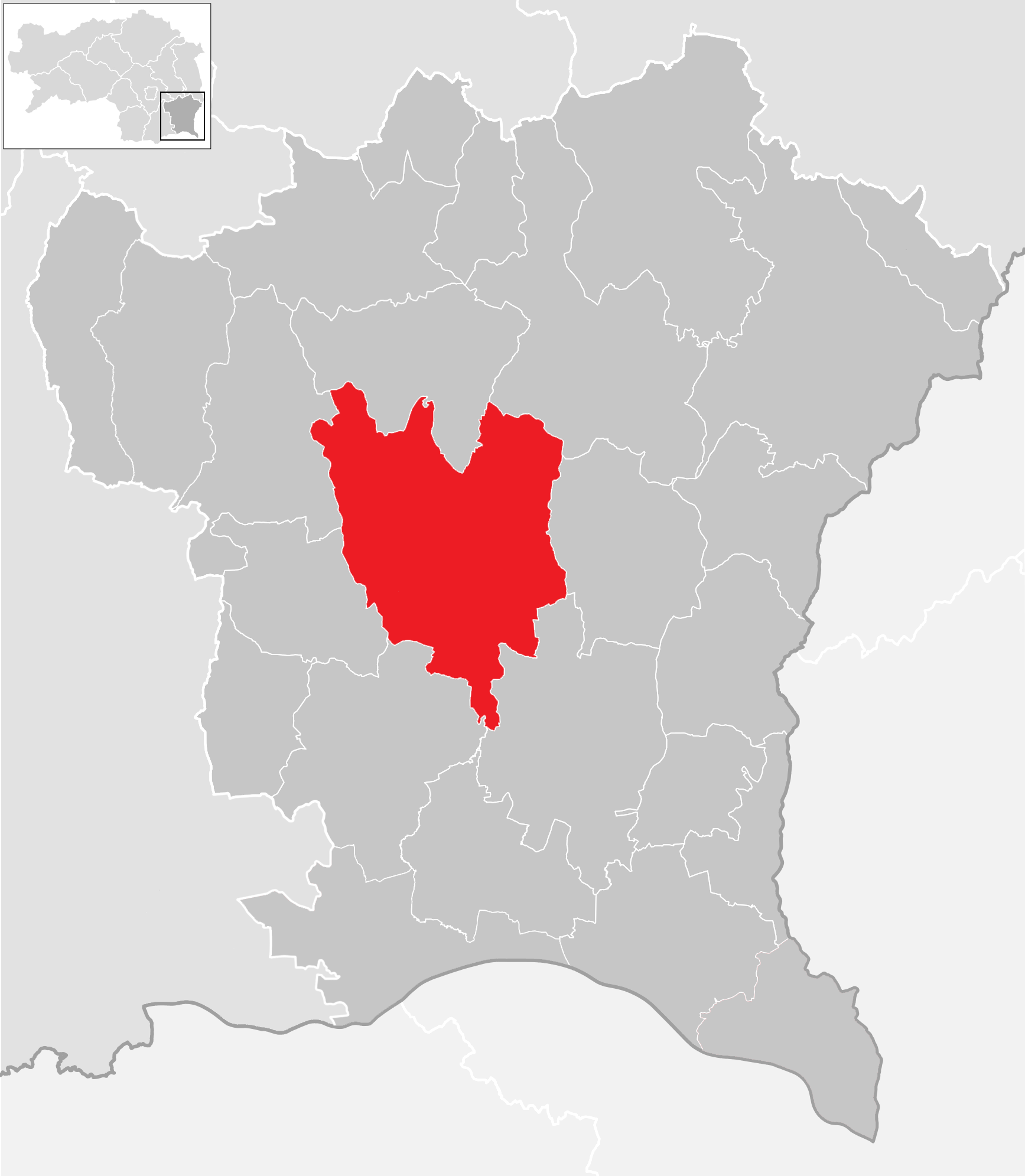 district Südoststeiermark